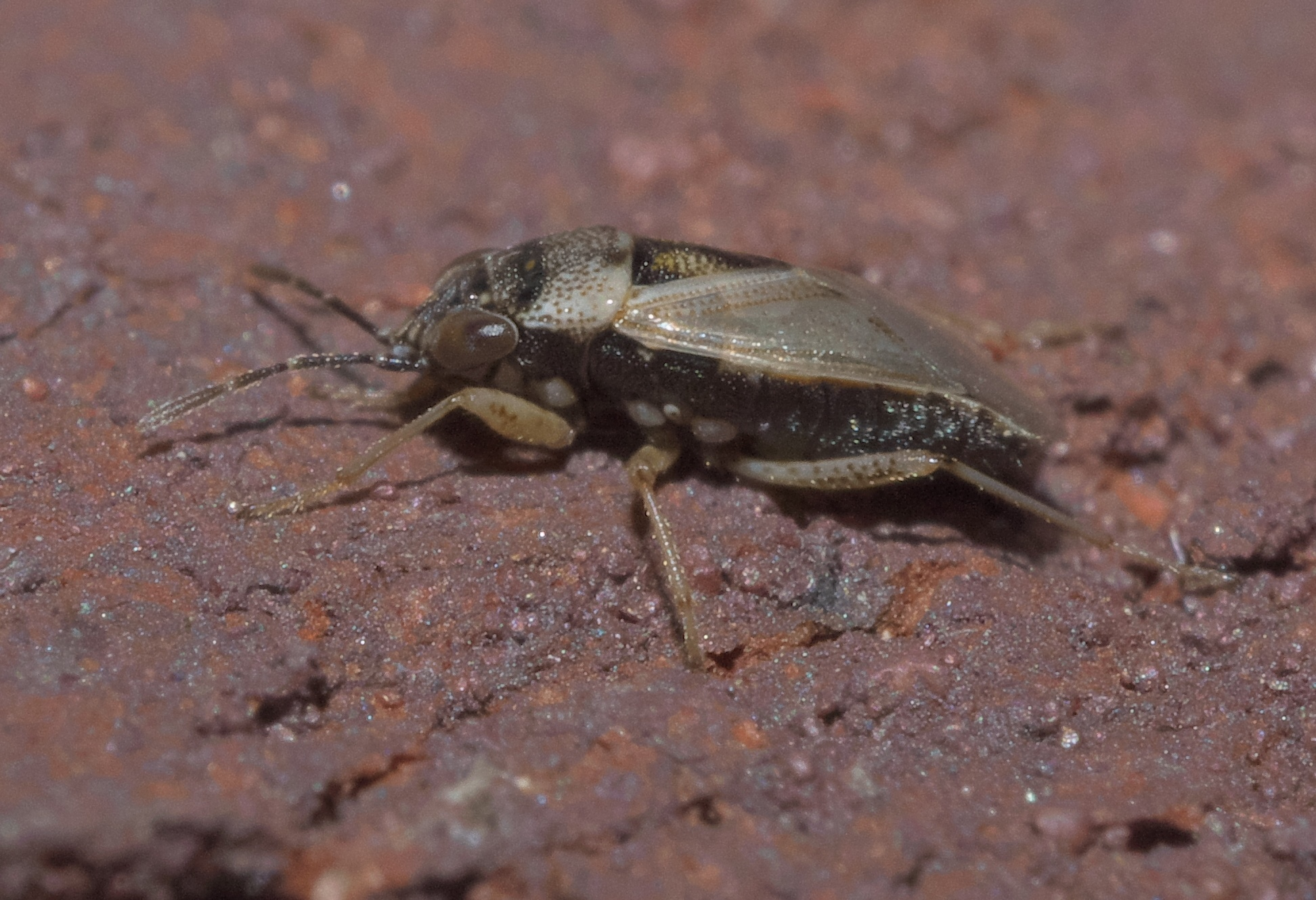 Geocoris punctipes, Genus: Big-eyed Bug, ID Confidence: 98